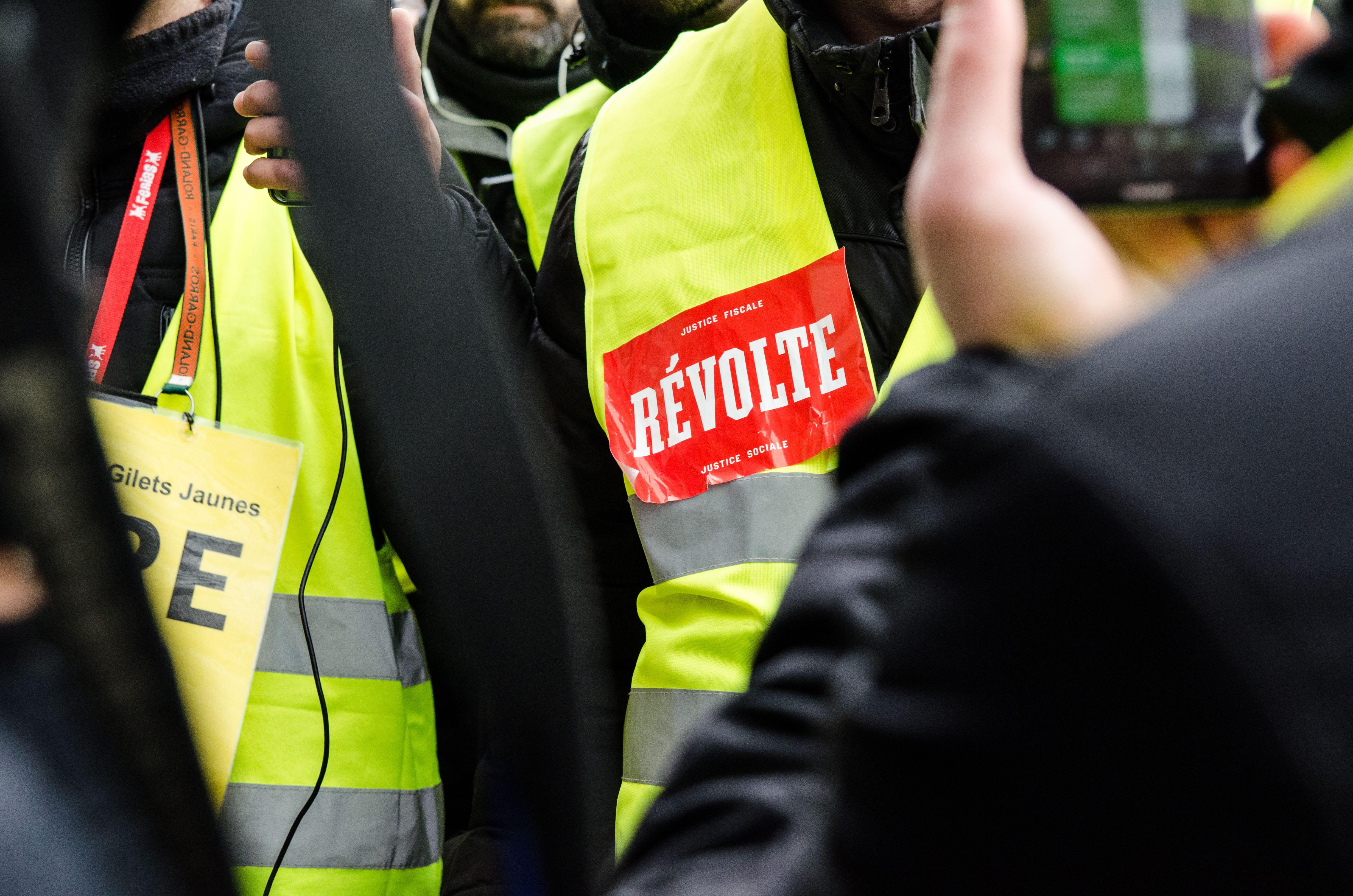 Mouvement des gilets jaunes, Paris, 05 Jan 2019